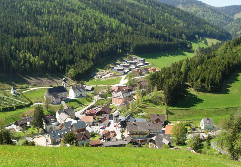 Gasen, Styria, Austria - village center 2008